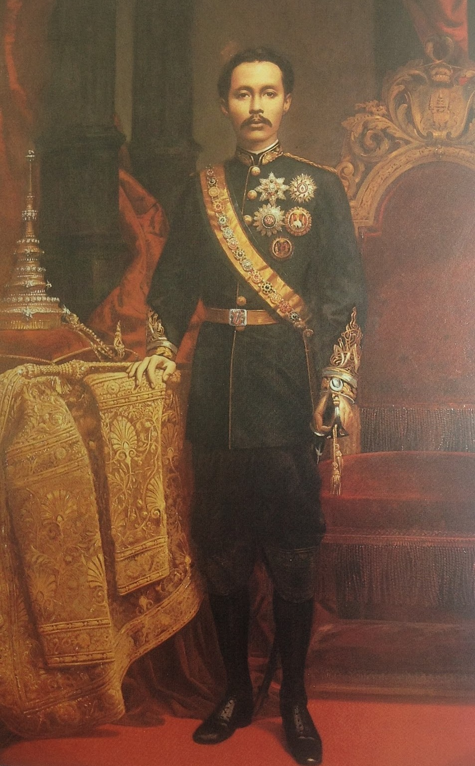 Crop of portrait of King Chulalongkorn which is displayed in the Chakri Mahaprasad Hall at the Grand Palace, Bangkok. Portrait created during his reign, meaning it was created no later than 1910 (identity of the creator is unknown to the uploader). Image taken from web page of the Public Relations Department, Region 3, at [1]